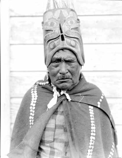 Nuu-chah-nulth man at Friendly Cove